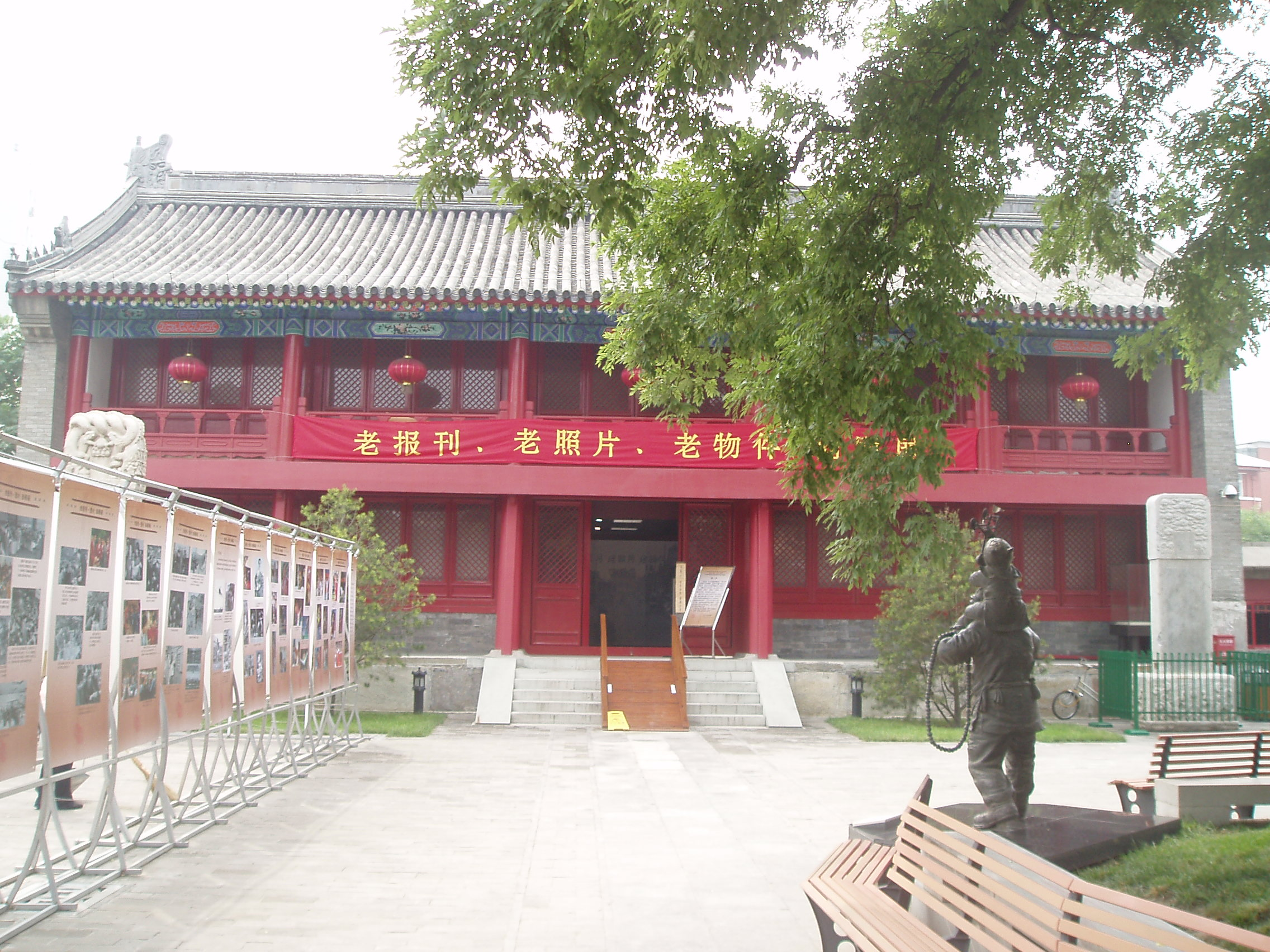 This is the back building of the changchun temple